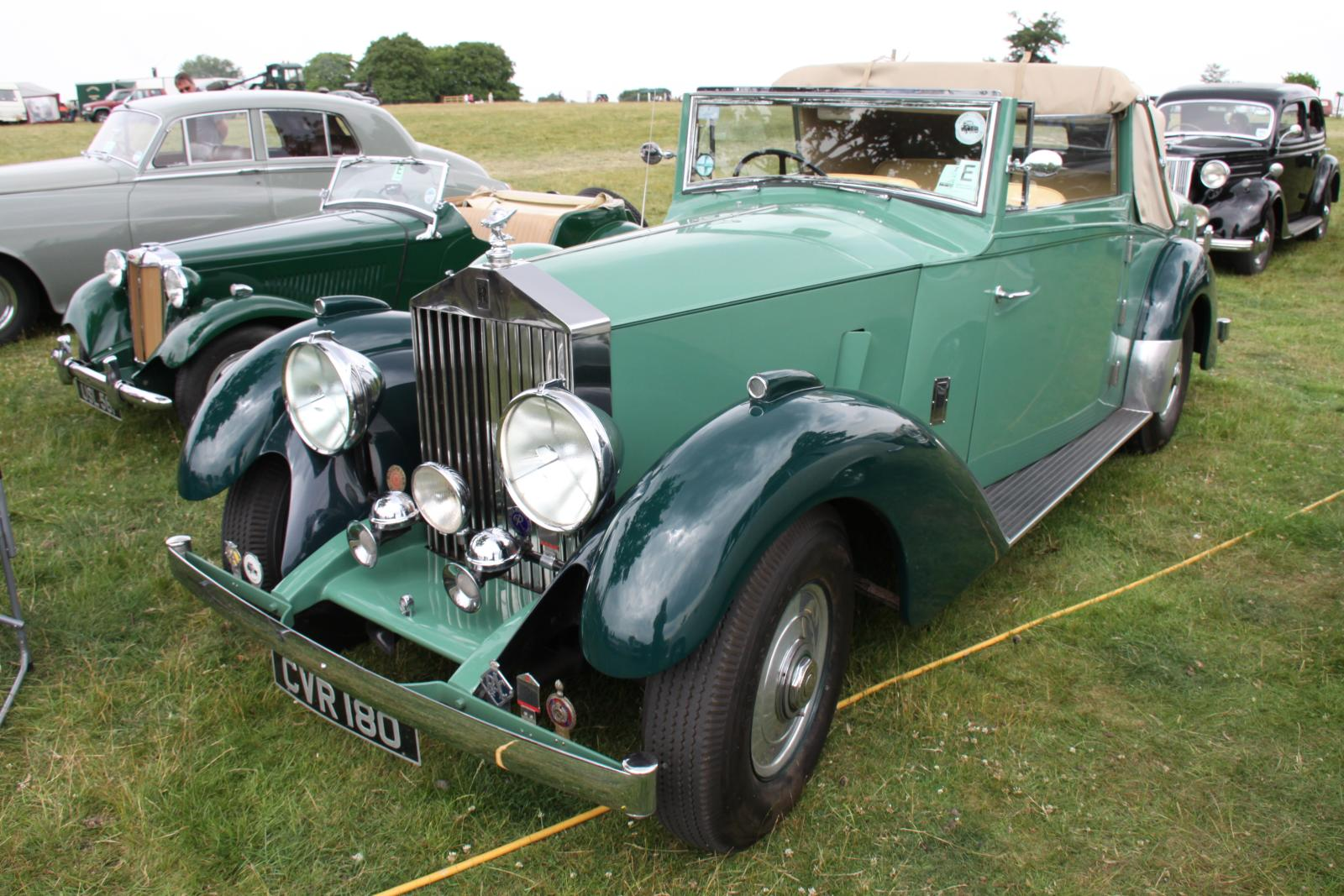 1936 Rolls-Royce 25/30 Caffyns Drophead Coupé, chassis no GTL56, at the 28th FMPS Annual Vintage Rally, 2nd and 3rd of July 2011 In the magnificent grounds of Long Melford Hall in Suffolk by kind permission of Sir Richard and Lady Hyde-Parker. This long established rally attracts visitors and exhibitors from all over East Anglia as well as quite a number travelling from all around the UK. All types of vintage machines and other exhibits are to be found from the mighty Steam Engines to collections of antique "anythings". Organized by the Farm Machinery Preservation Society. The Society is proud to be associated with, and to support, Macmillan Nurses and will be donating a considerable sum to this most deserving charity.